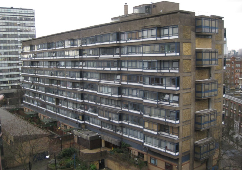 The modernist housing complex Perronet House, with the end wall showing the distinctive 'half floor' arrangement between the internal walkways (shown by the end windows) and the accommodation floors (shown by the side windows)